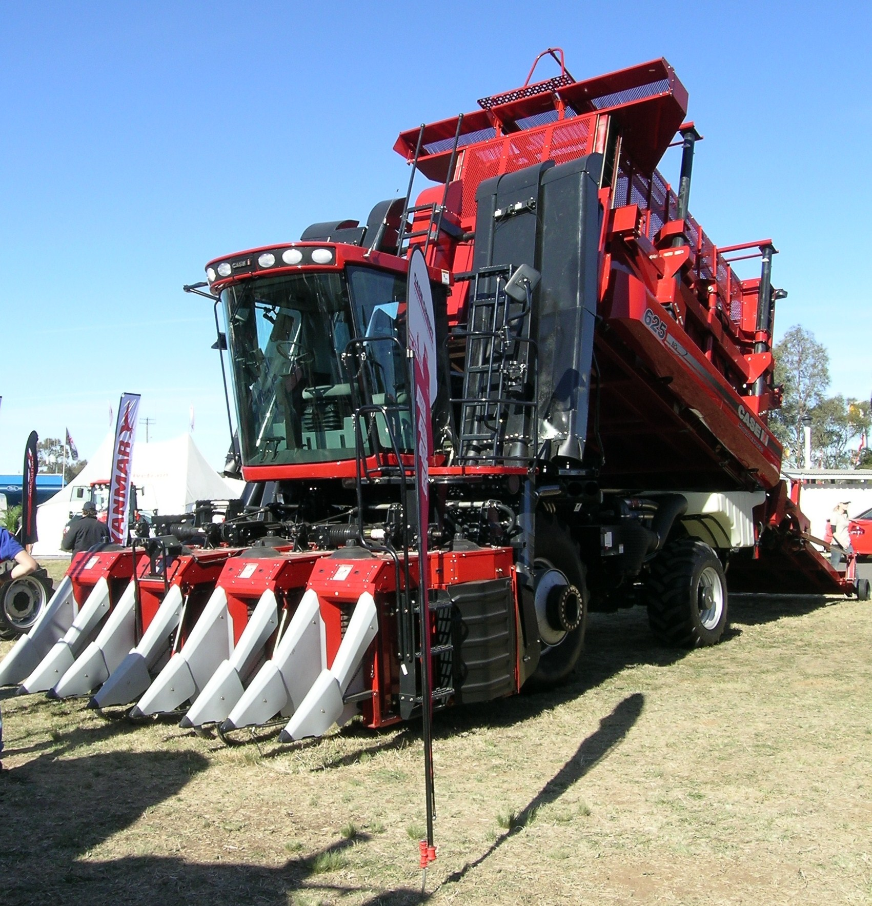 The Case IH Module Express™ 625 (a combined cotton harvester and module builder) picks cotton efficiently and simultaneously builds ginner-friendly cotton modules reducing a cotton producer's equipment and labor investment while streamlining the harvest process.